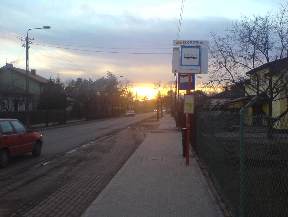 ul. Rycerska